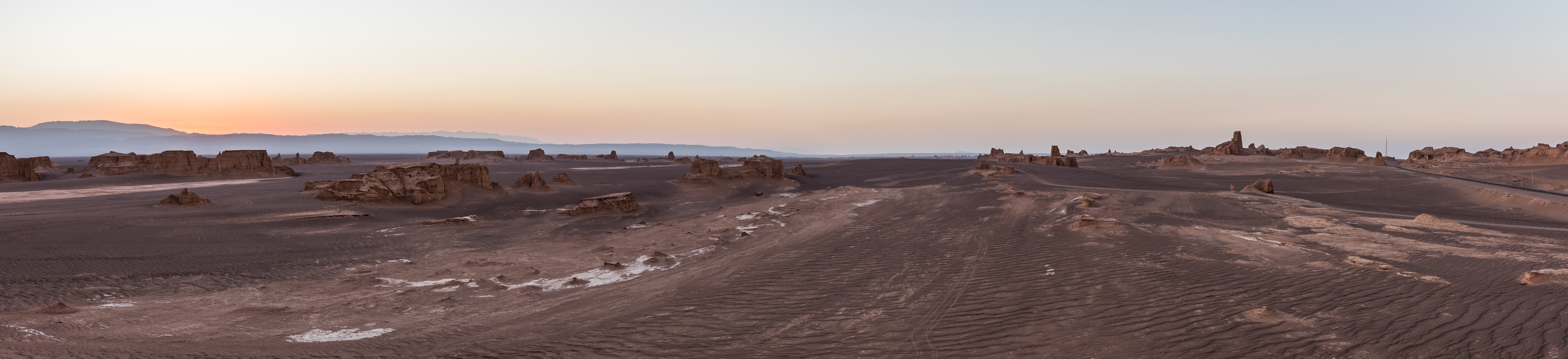 Panoramic view during sunset of Dasht-e Loot, in English "Emptiness desert", located in the provinces of Kerman and Sistan-Baluchistan, Iran. This place is pretty special for being the spot on the Earth where the highest temperature was ever measured (70 °C or 159 °F) and since July 2016 a UNESCO World Heritage Site.